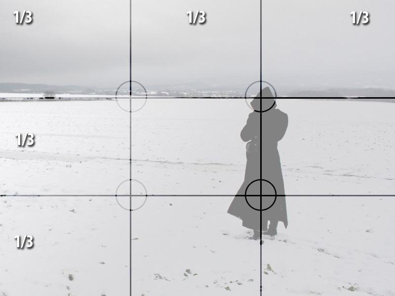 One of important rule of composition in photography is 'Third Rule'.